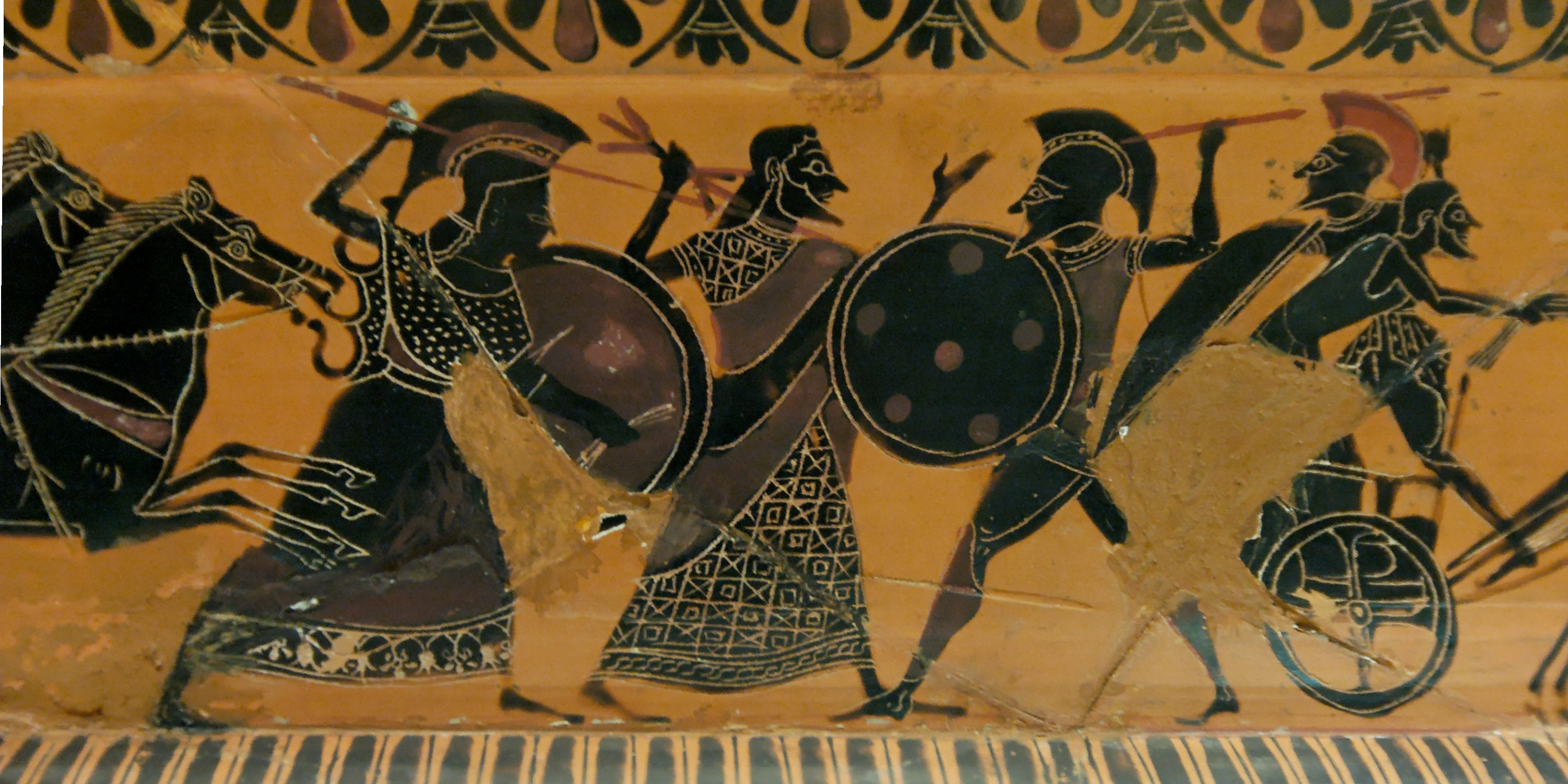 Zeus (centre) parts Athena (left) and Ares (right) while Kyknos (far right) flees Herakles (here unseen) approaching in his chariot (far left). The scene has also been thought to represent a Gigatomachy. Attic black-figured volute-krater, ca. 540–510 BC.